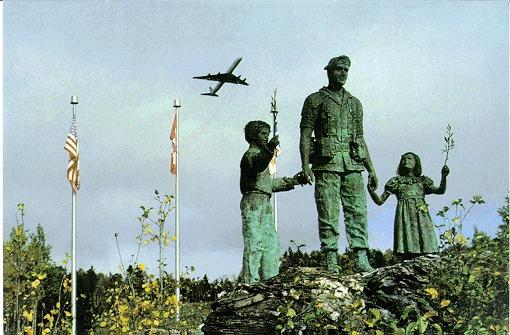 Memorial Silent Witness on the Arrow Air Flight 1285 crash location near Gander International Airport.